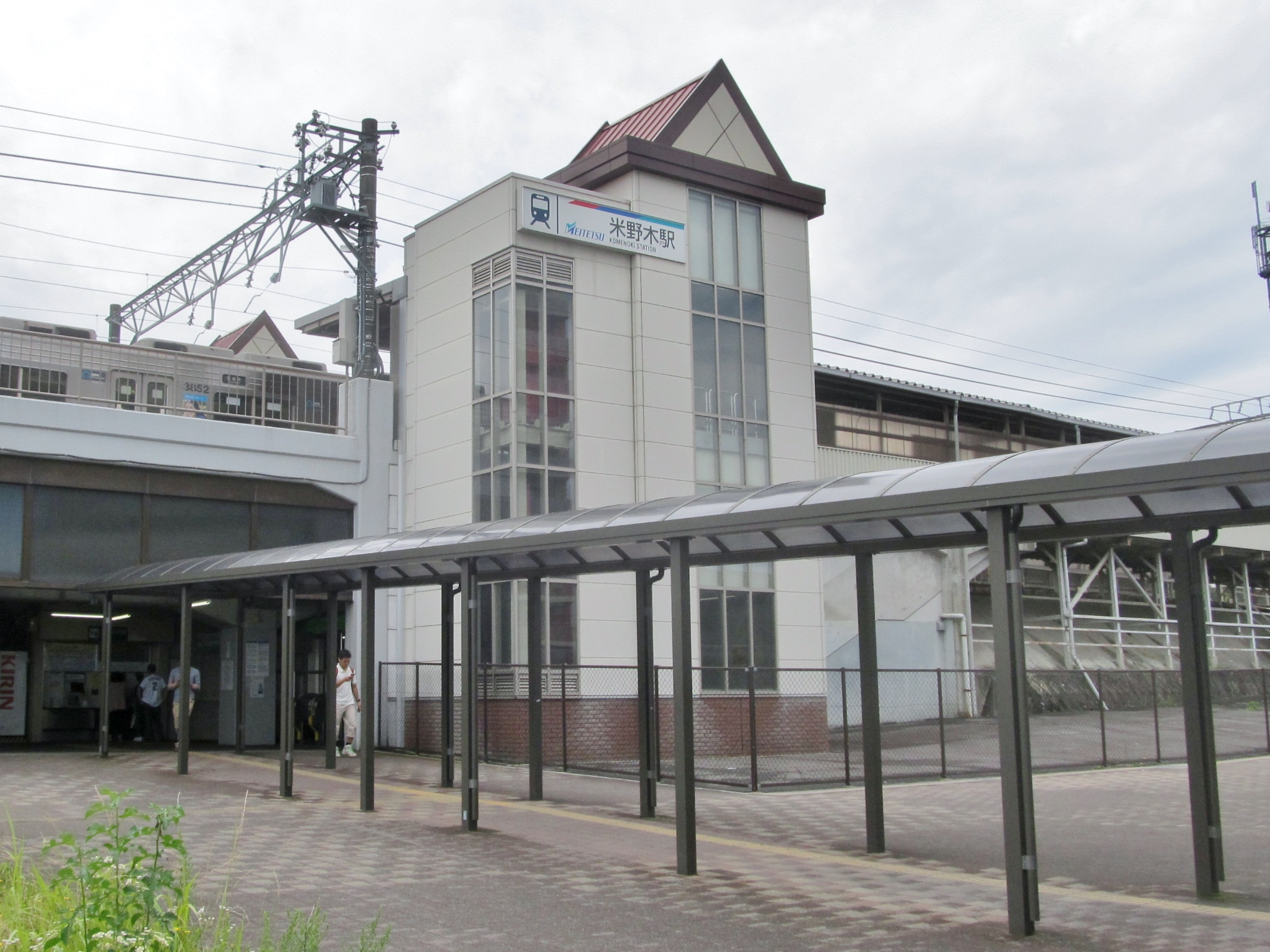 Nagoya Railroad Toyota Line Komenoki Station Building